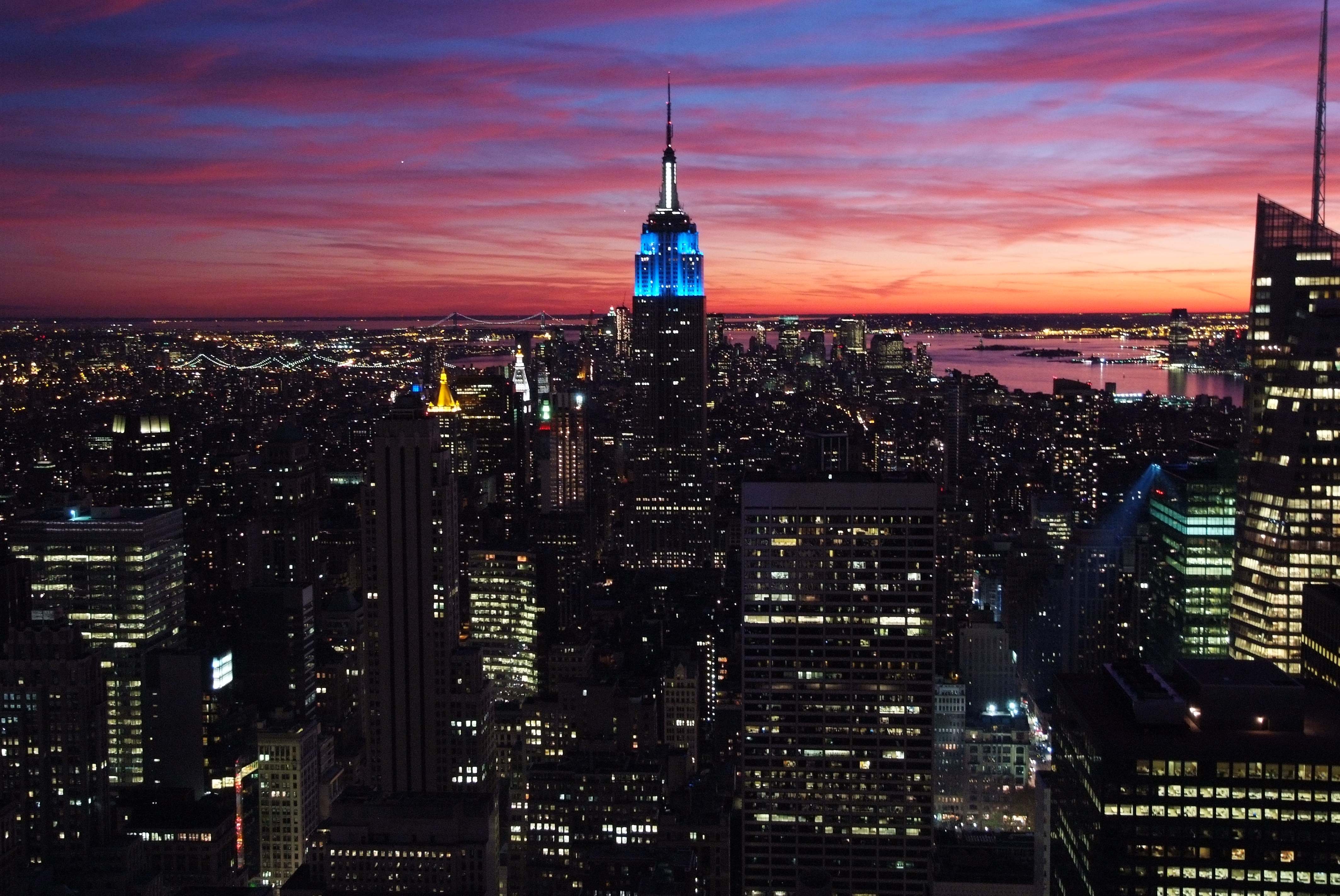 View of the Empire State Building from Rockefeller Center.